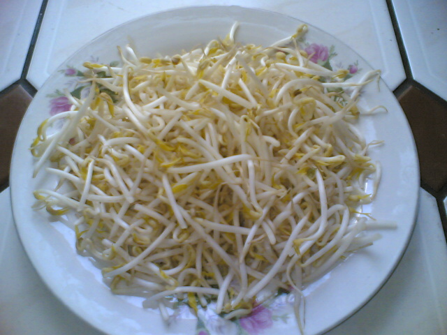 Bean Sprouts